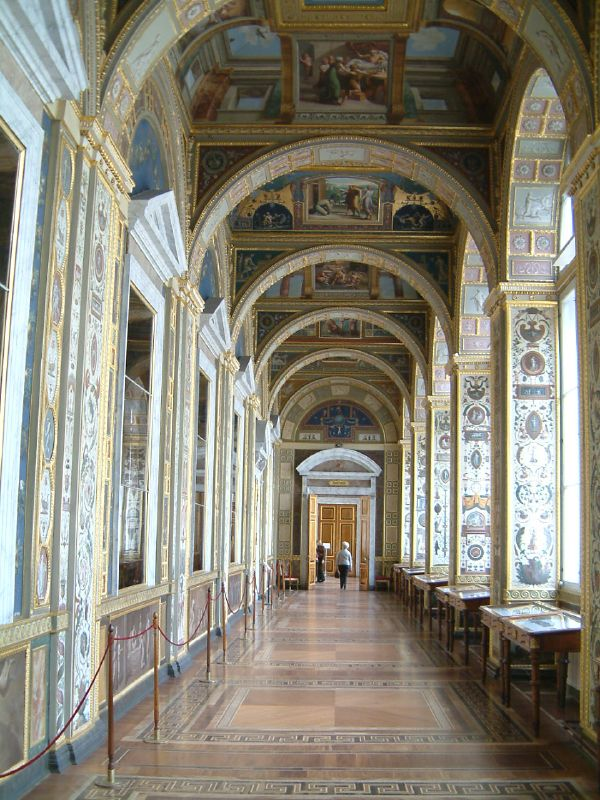 Ermitage Corridor.